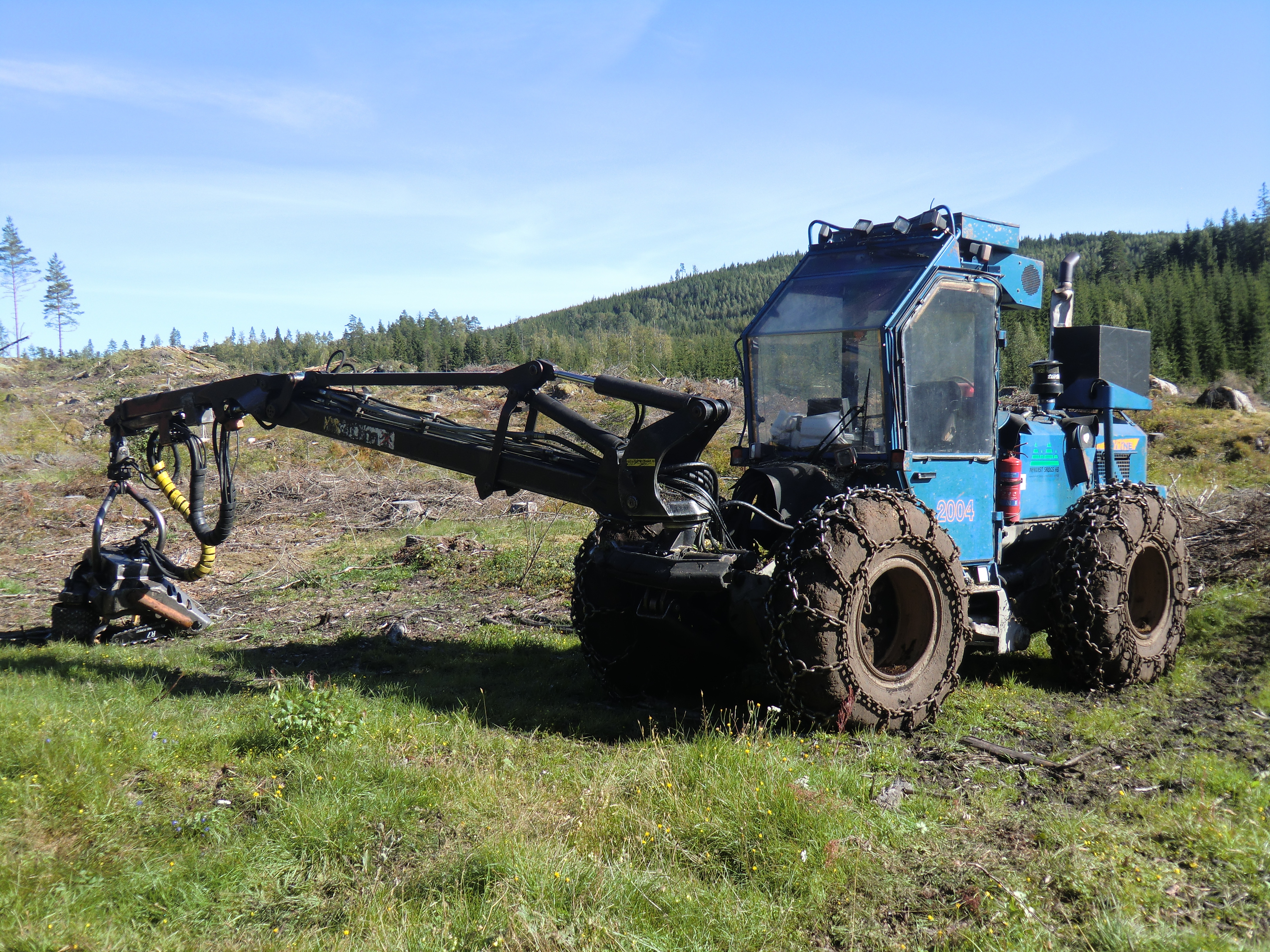 Small harvester Rottne 2004 for forest thinning.